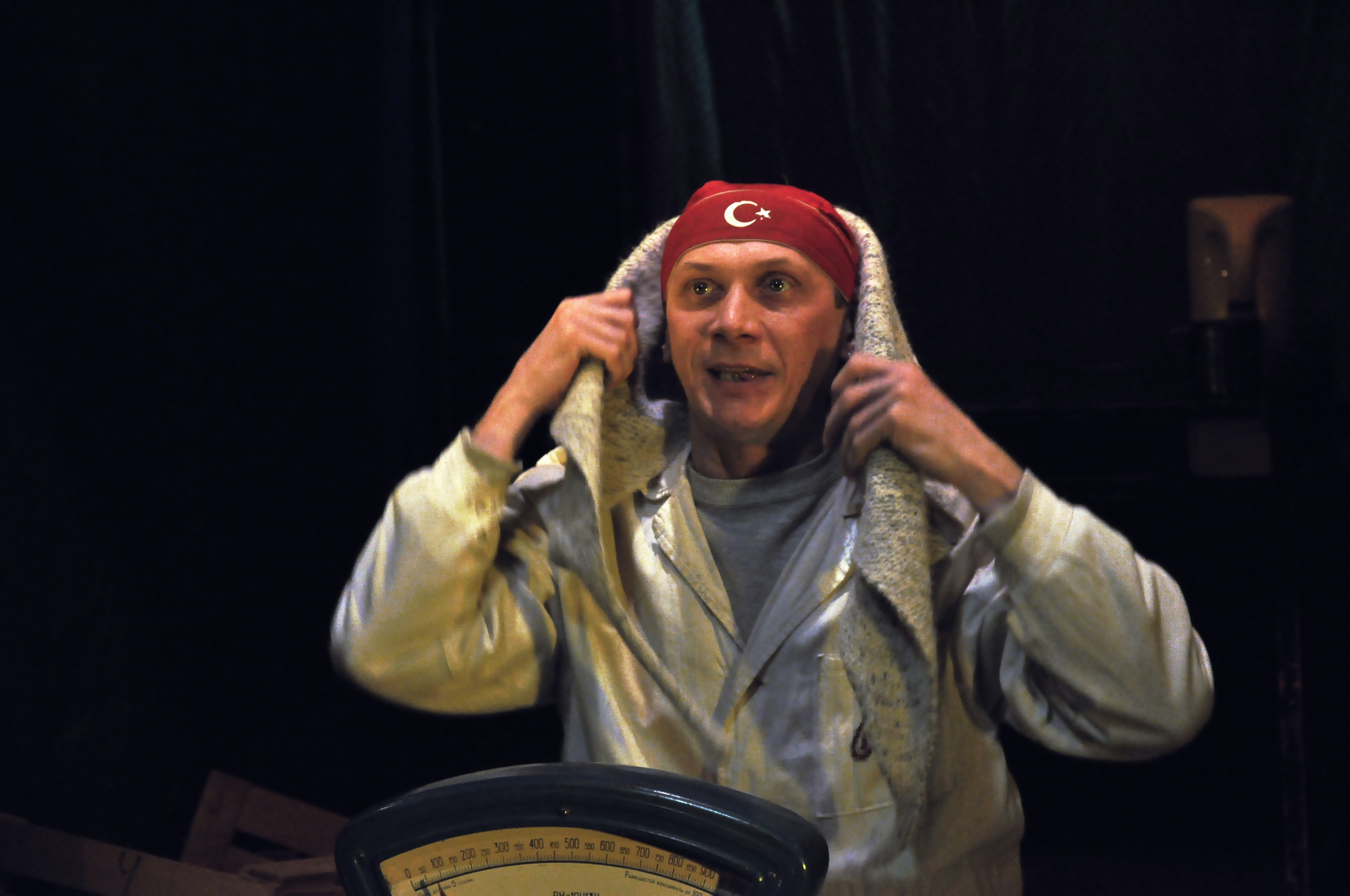 `Two plus two`, Kolyada theatre (Yekaterinburg), March 2014